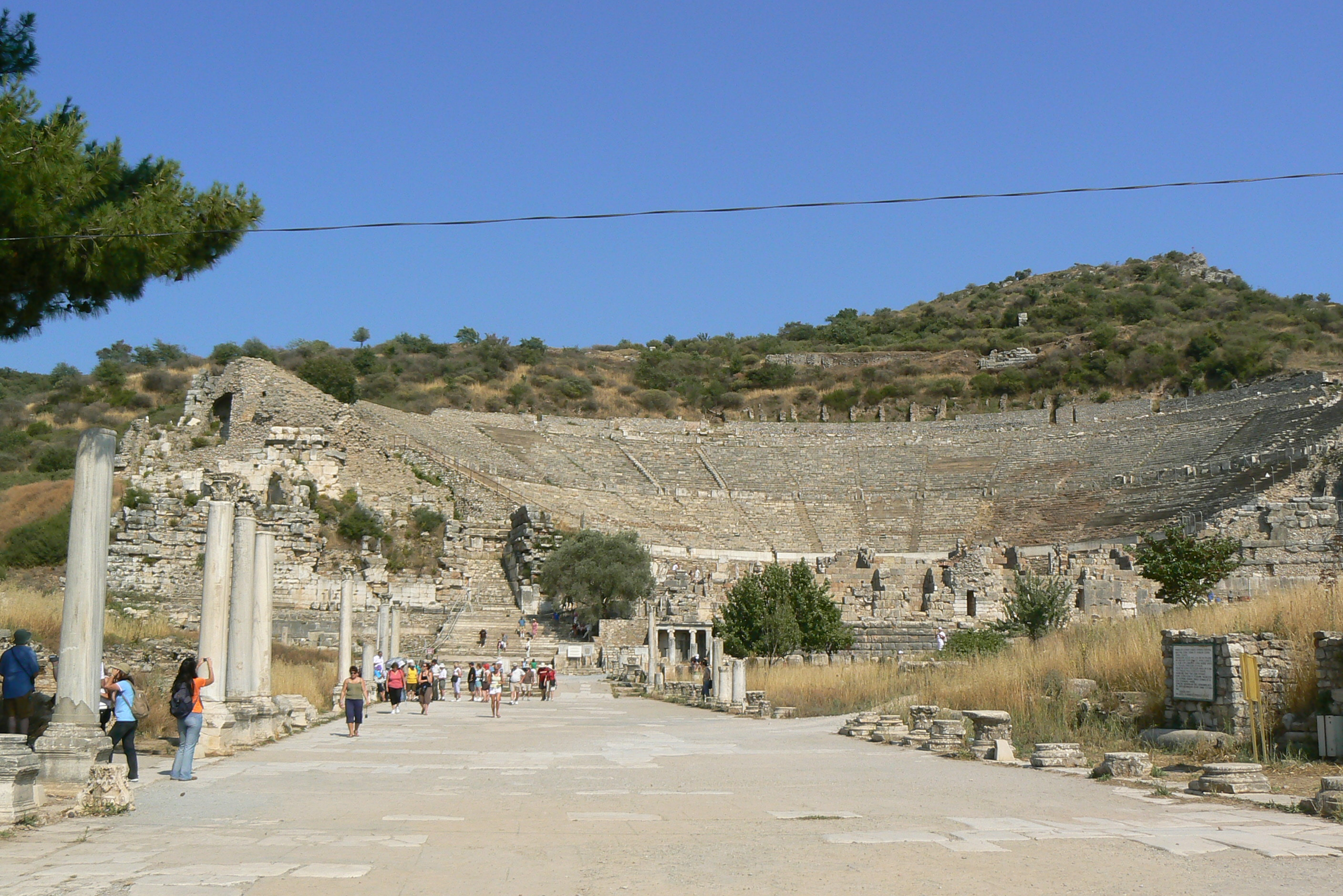 Ephesus, theater